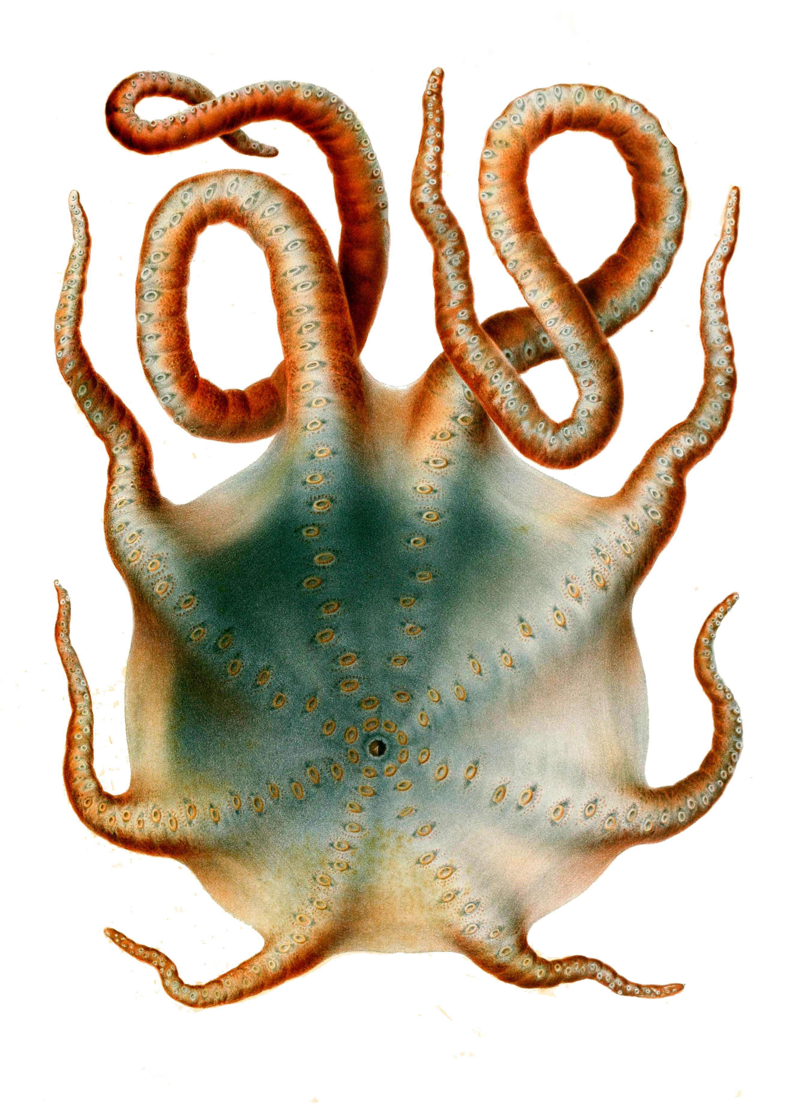 Haliphron atlanticus